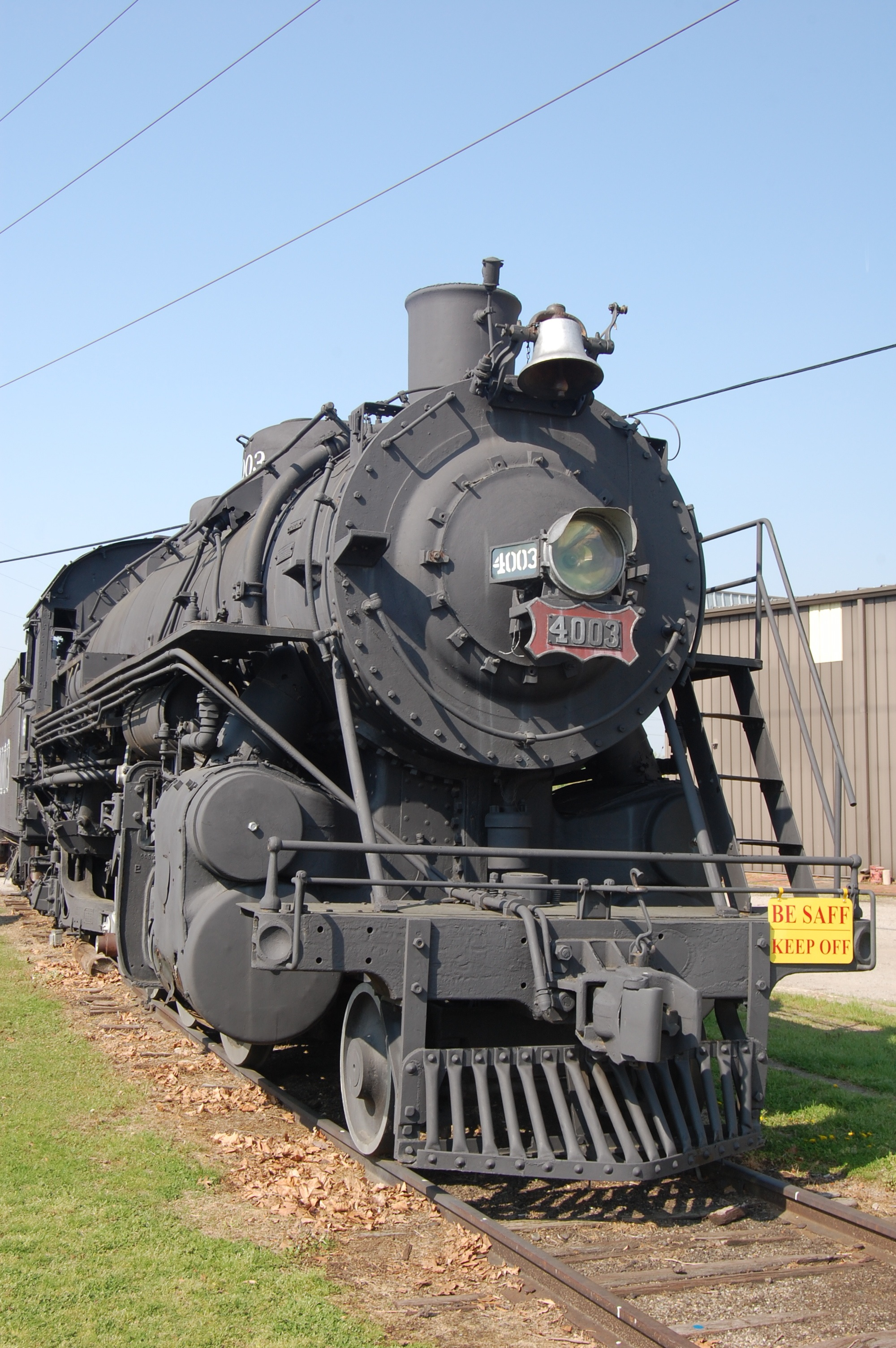 Frisco 4003 steam locomotive on display at the Fort Smith Trolley Museum, in Fort Smith, Arkansas. The 1919-built locomotive is listed on the U.S. National Register of Historic Places, as "St. Louis San Francisco (Frisco) Railway Steam Locomotive #4003".